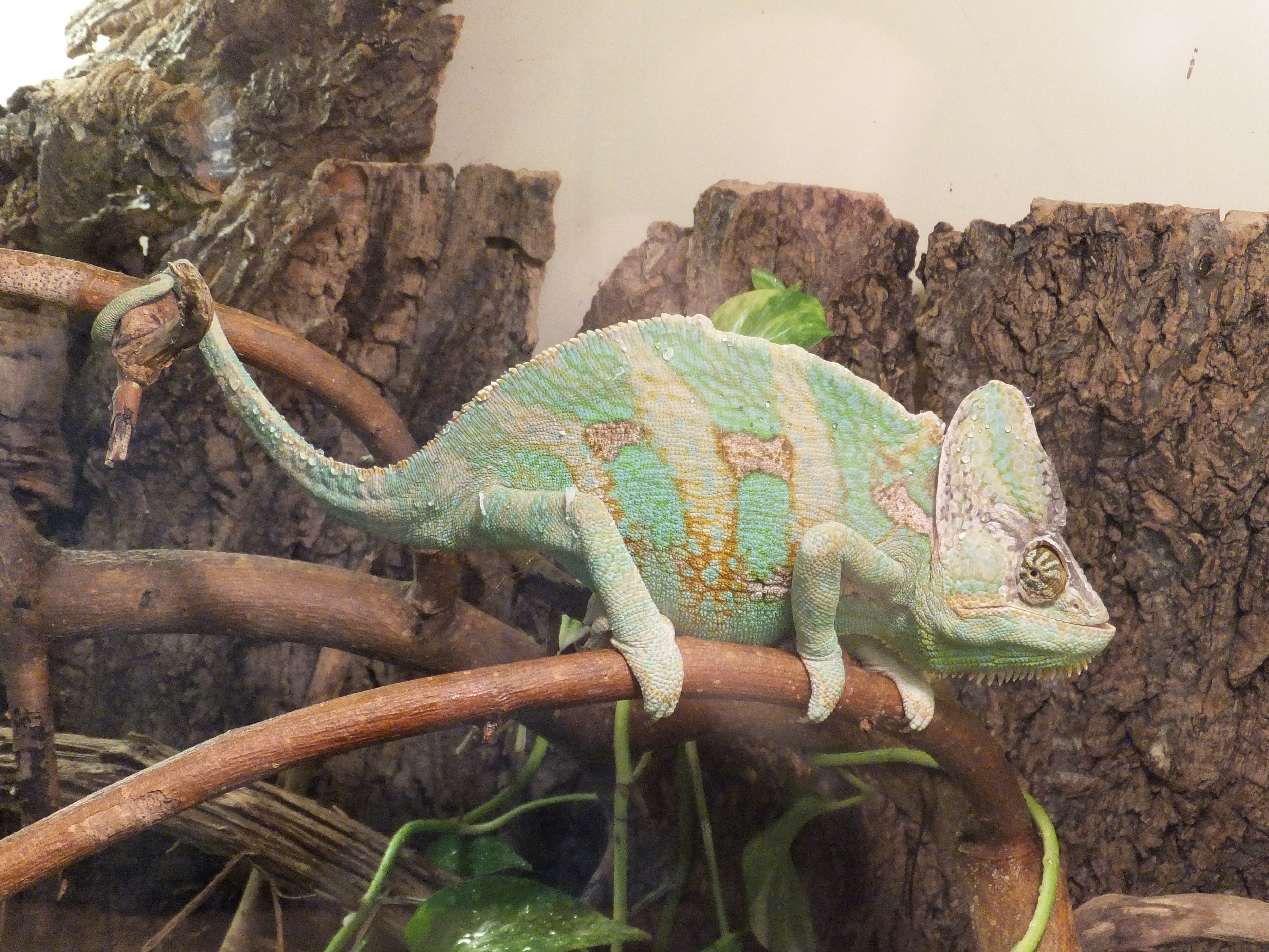 Chamaeleo calyptratus photographed in Esapolis